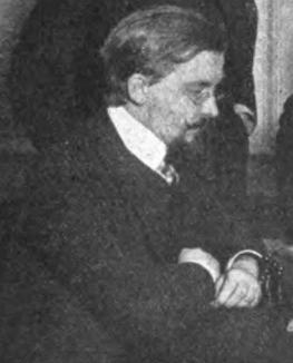 Photo of Milan Vidmar